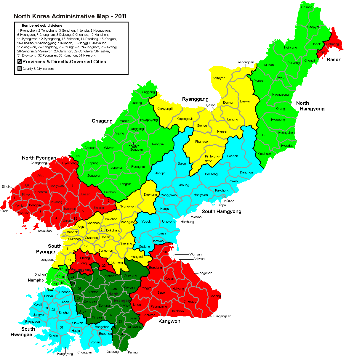 Own work